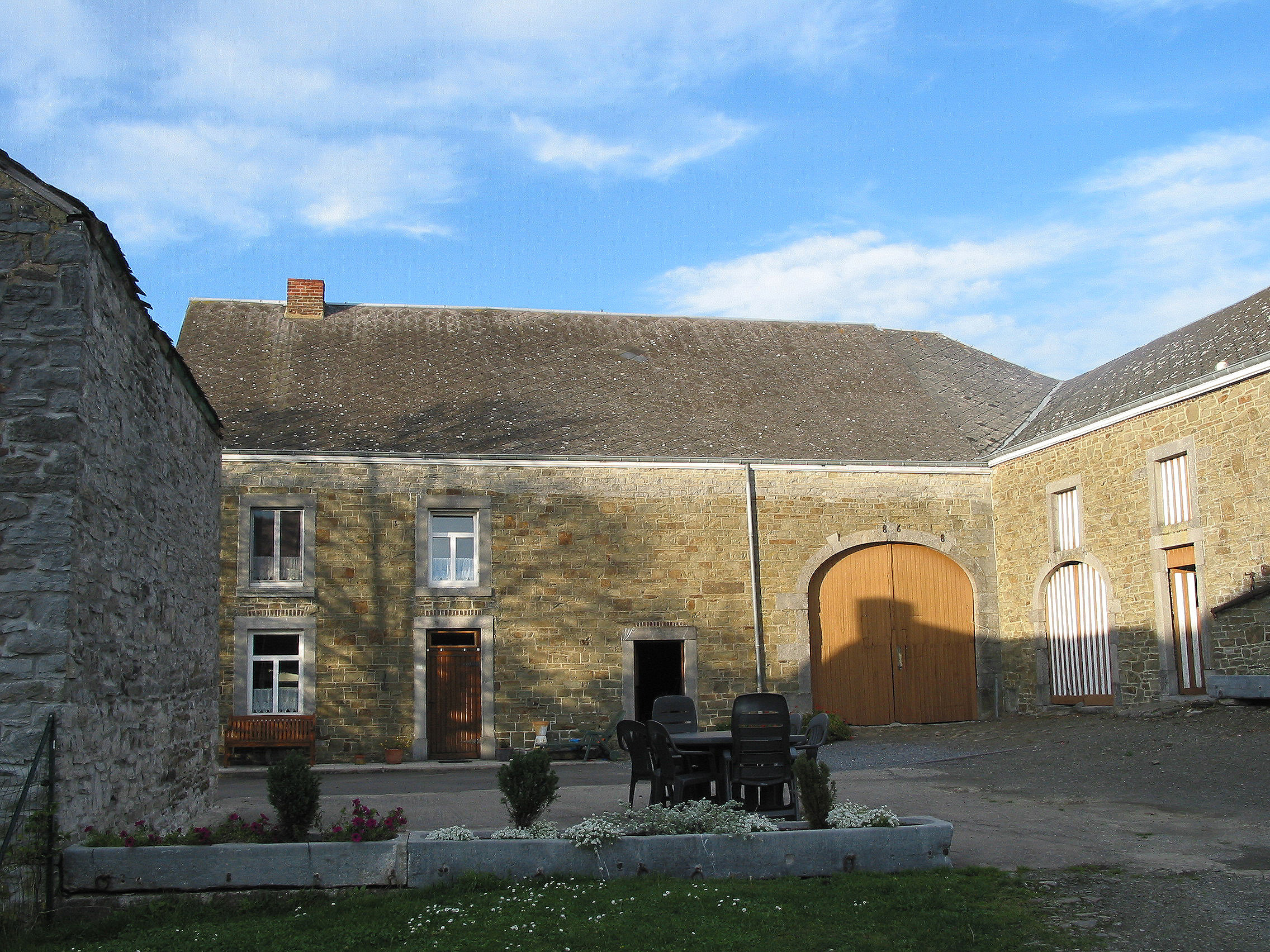 Lesterny (Belgium), Old farm, rue du Point d'Arrêt, 27 (XIXth century).